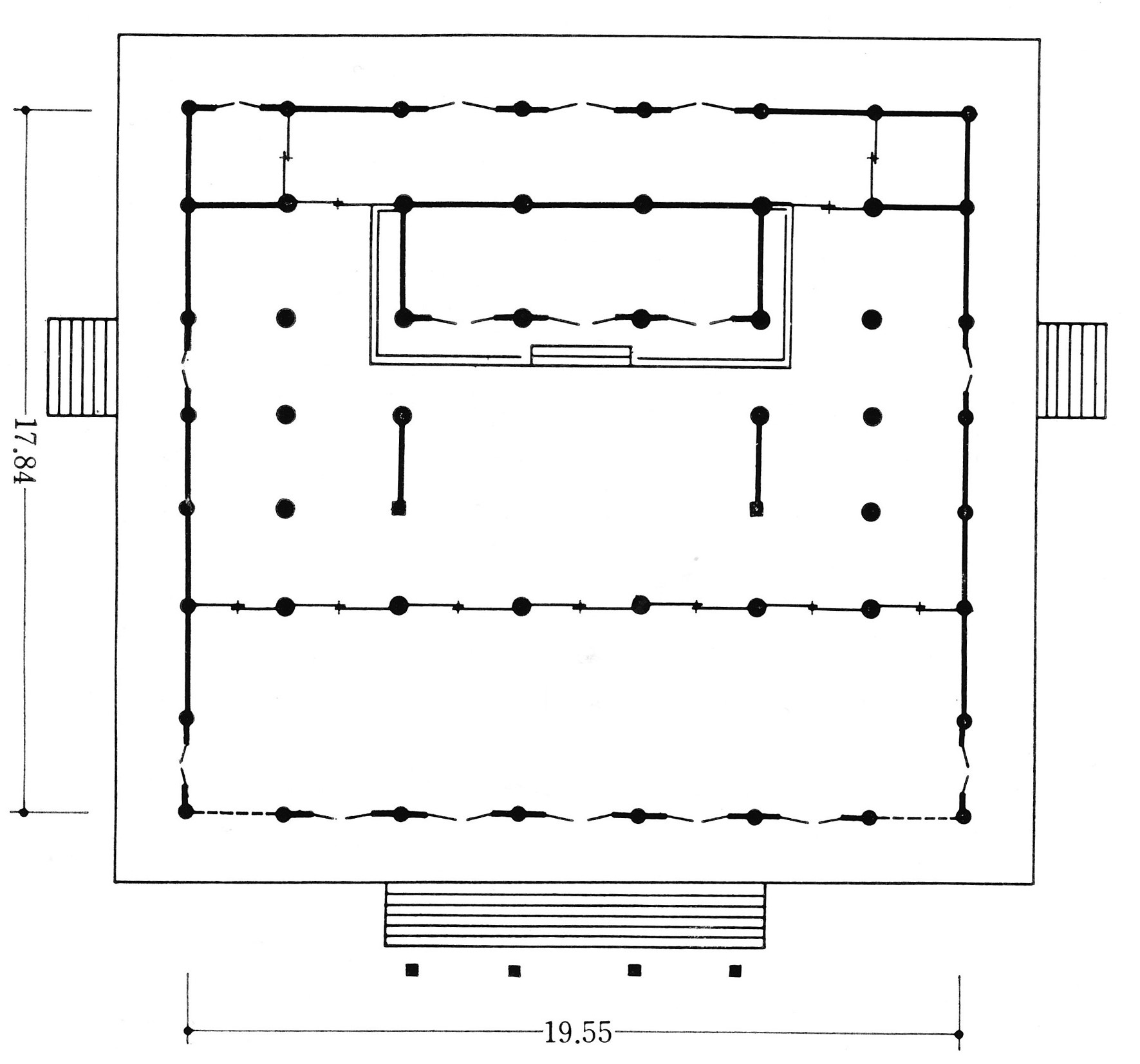 Mainhall of Kanshin-ji